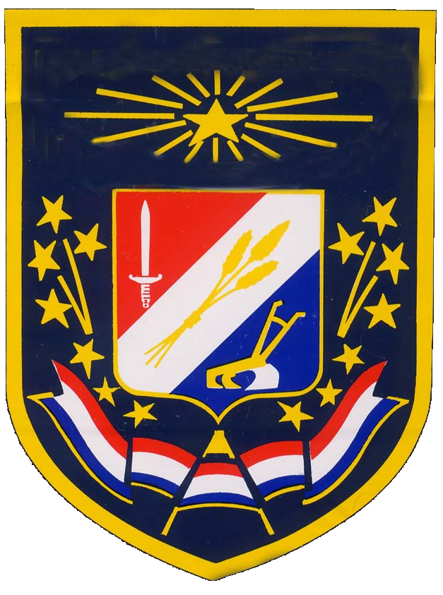 Coat of Arms of Boufarik, in Algeria.